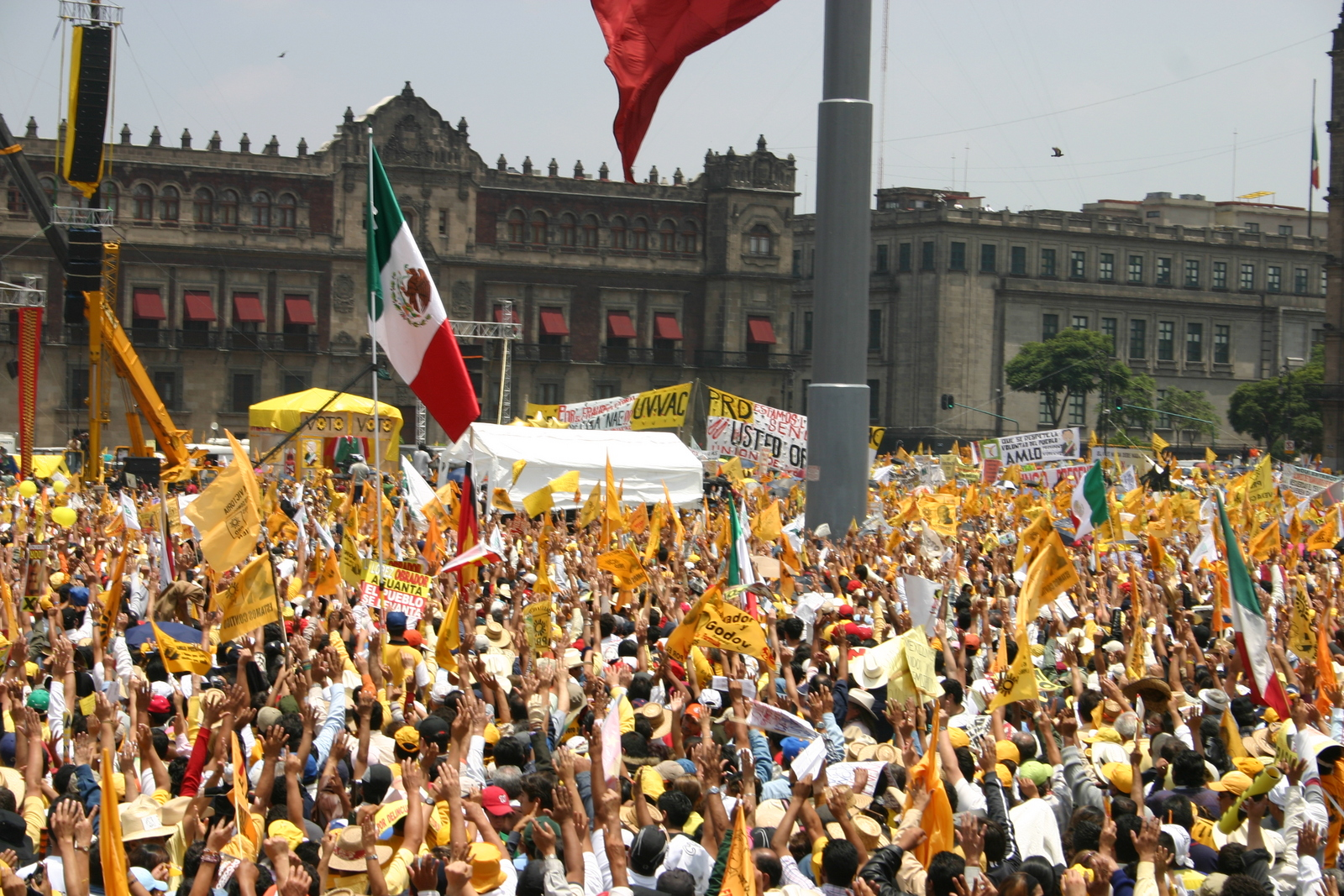 Third Informative Assembly, Mexico City, July 30 2006.